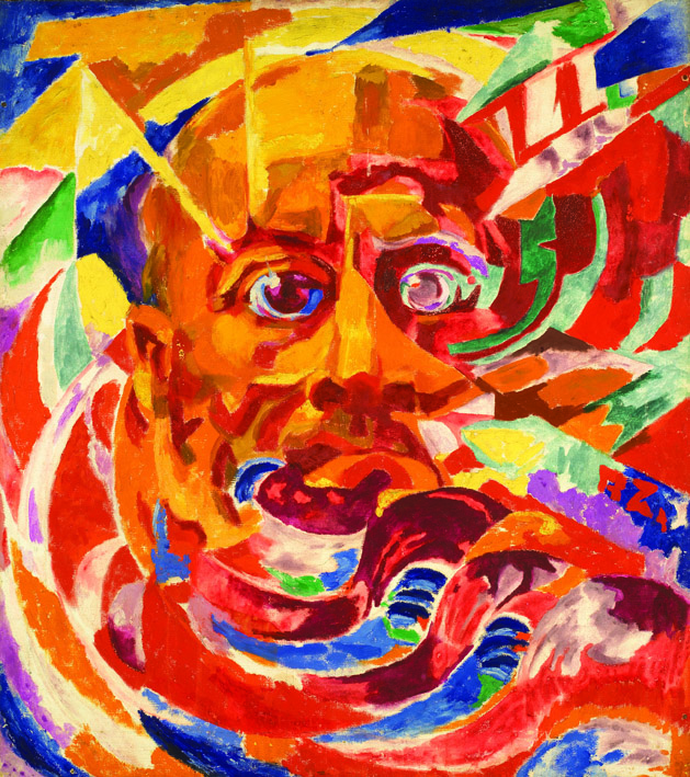 Růžena Zátková - Marinetti